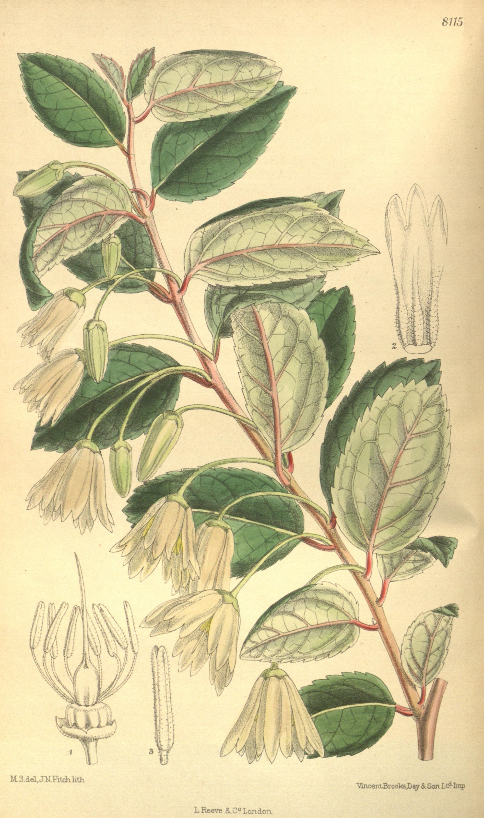 Listed as Eugenia planipes, now called Myrceugenia planipes